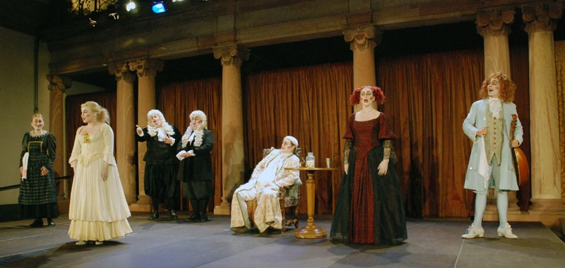 Barock am Main